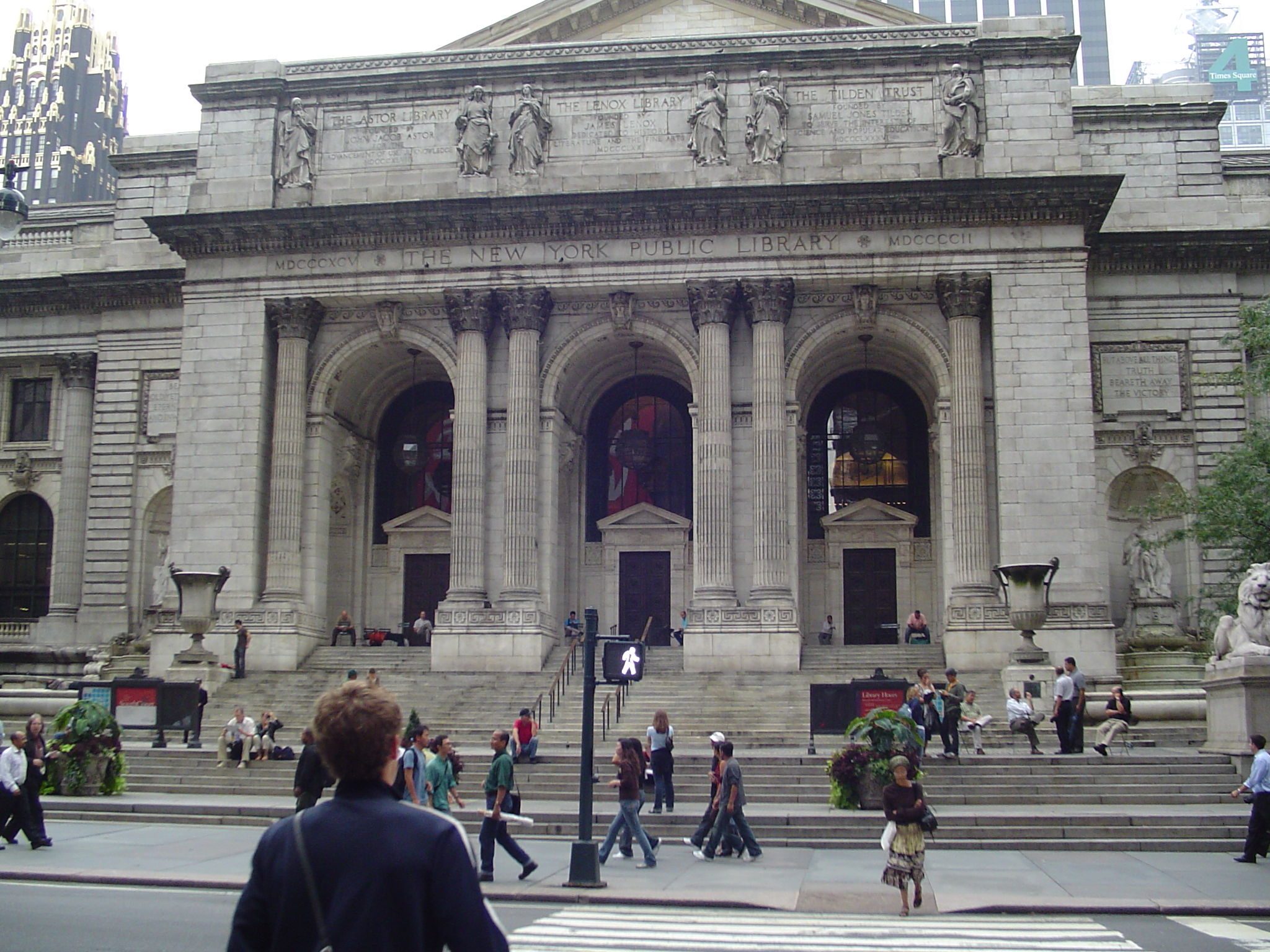 New York Public Library, 5th avenue and 42nd street.